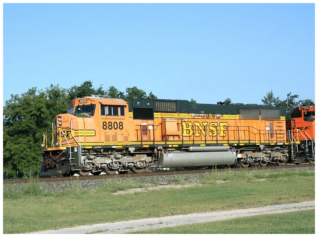 Burlington Northern Santa Fe 8808, EMD SD70MAC [1]